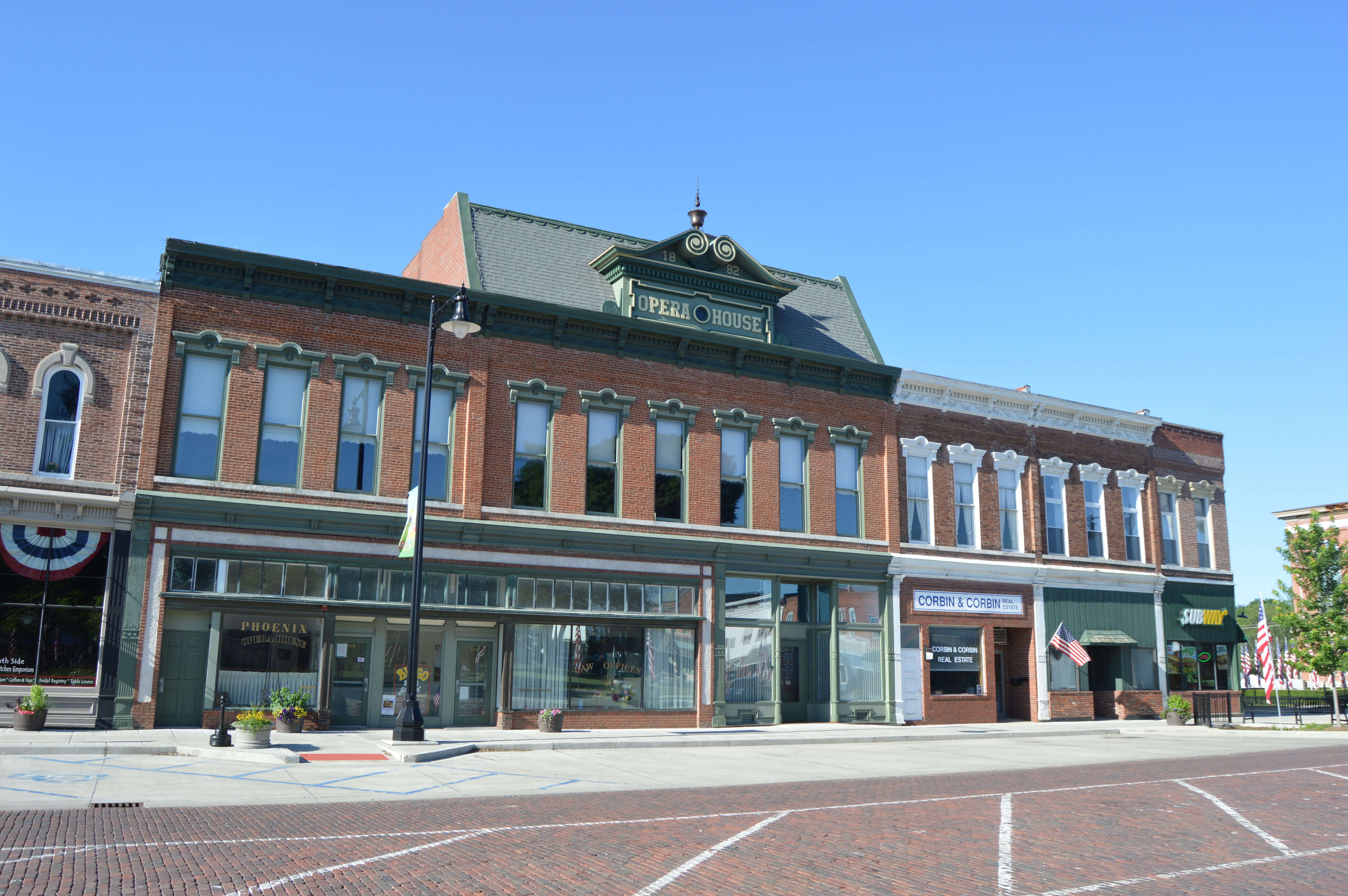 Northern side of the Phoenix Opera House Block, located along U.S. Route 24 at 112-122 W. Lafayette Street in Rushville, Illinois, United States. Built in 1882, it is listed on the National Register of Historic Places.